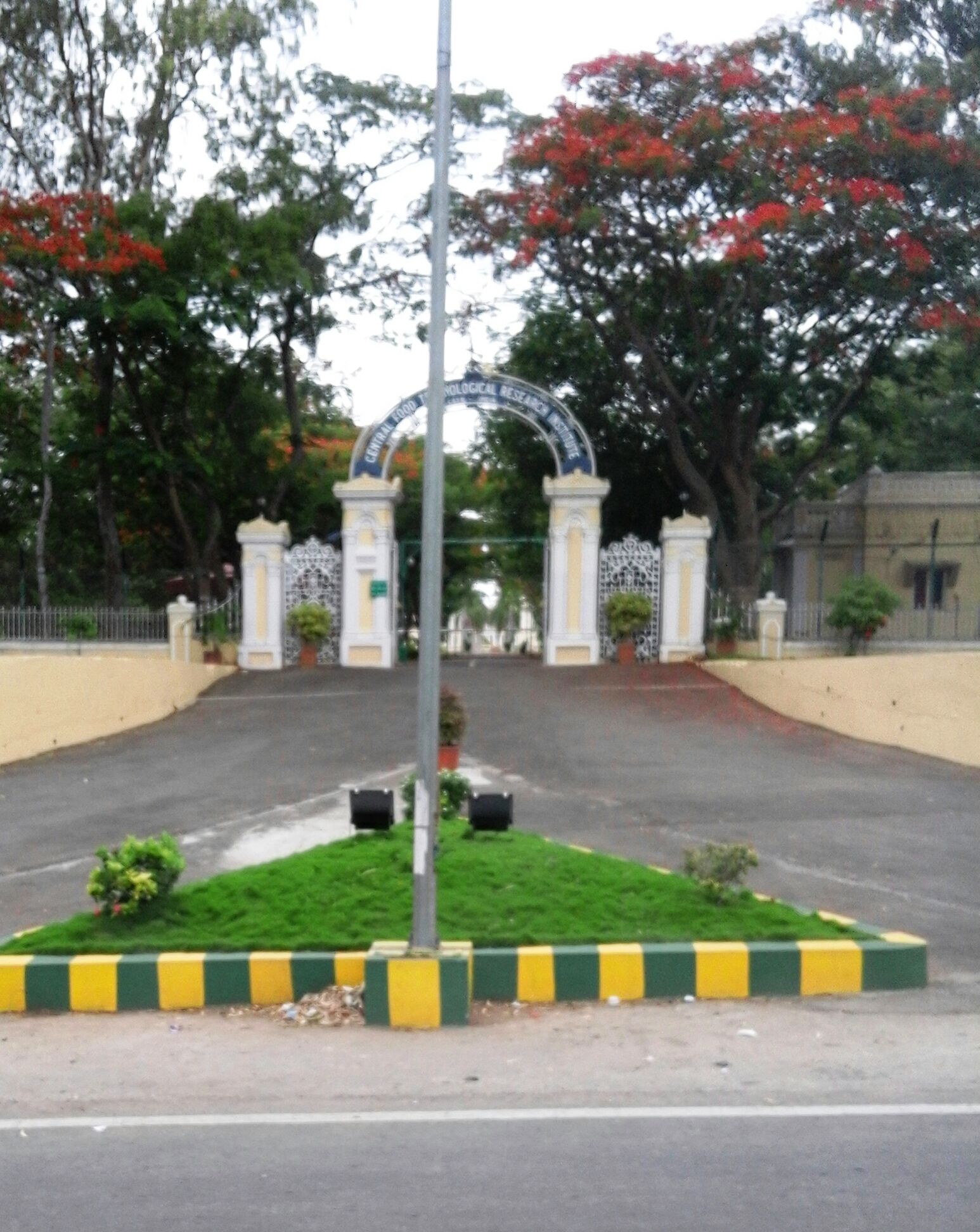 Mysore city, Karnataka province, India